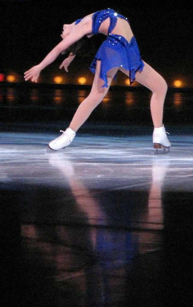 Shizuka Arakawa performs her signature Ina Bauer at the 2006 Champions on Ice show in San Jose, CA.